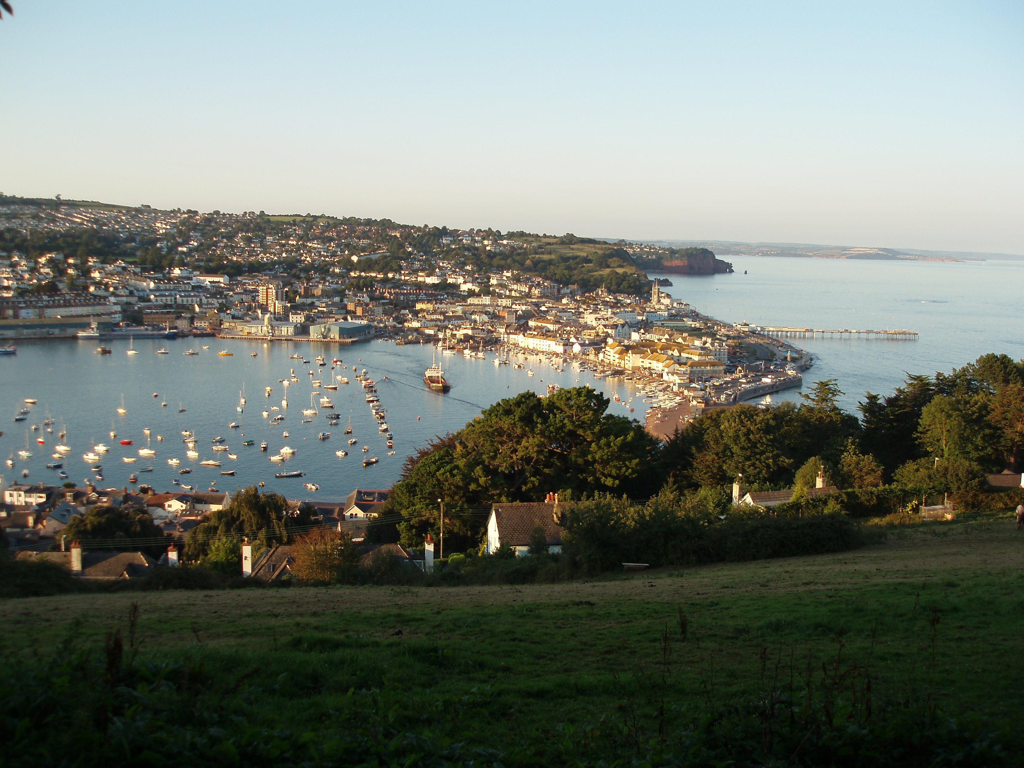 Teignmouth Harbour from Shaldon